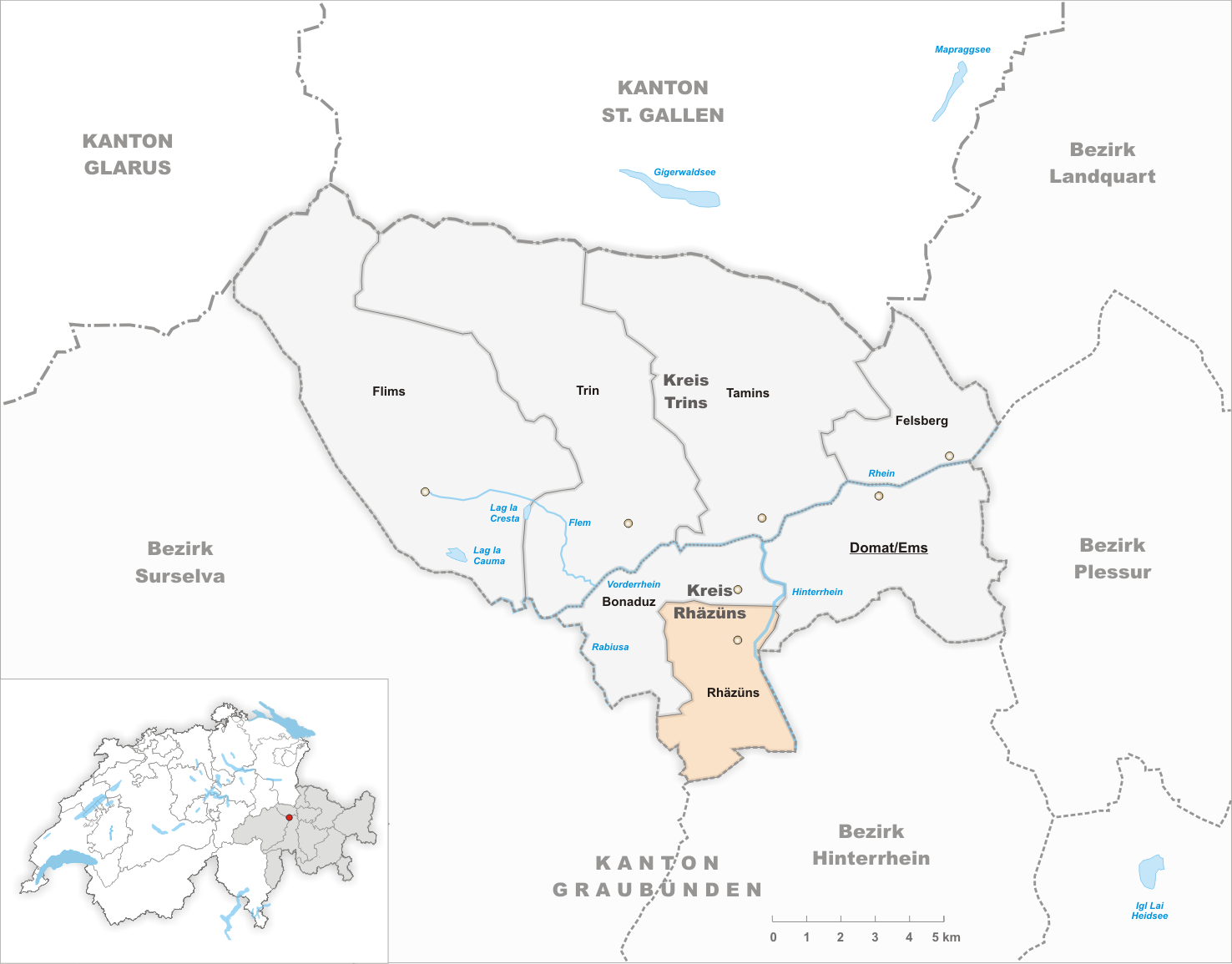 Municipality Rhäzüns